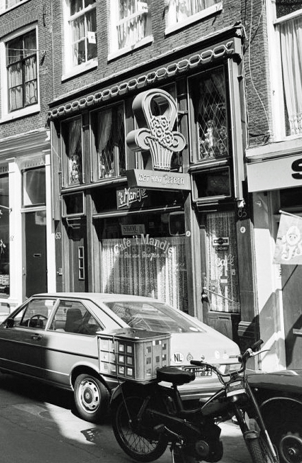 Café 't Mandje, Zeedijk 63 in Amsterdam. The place was opened in 1927 by Bet van Beeren and was one of the first bars for gay and lesbian people. 't Mandje closed in 1983 but was reopened in 2008. The photo shows the bar in 1976.